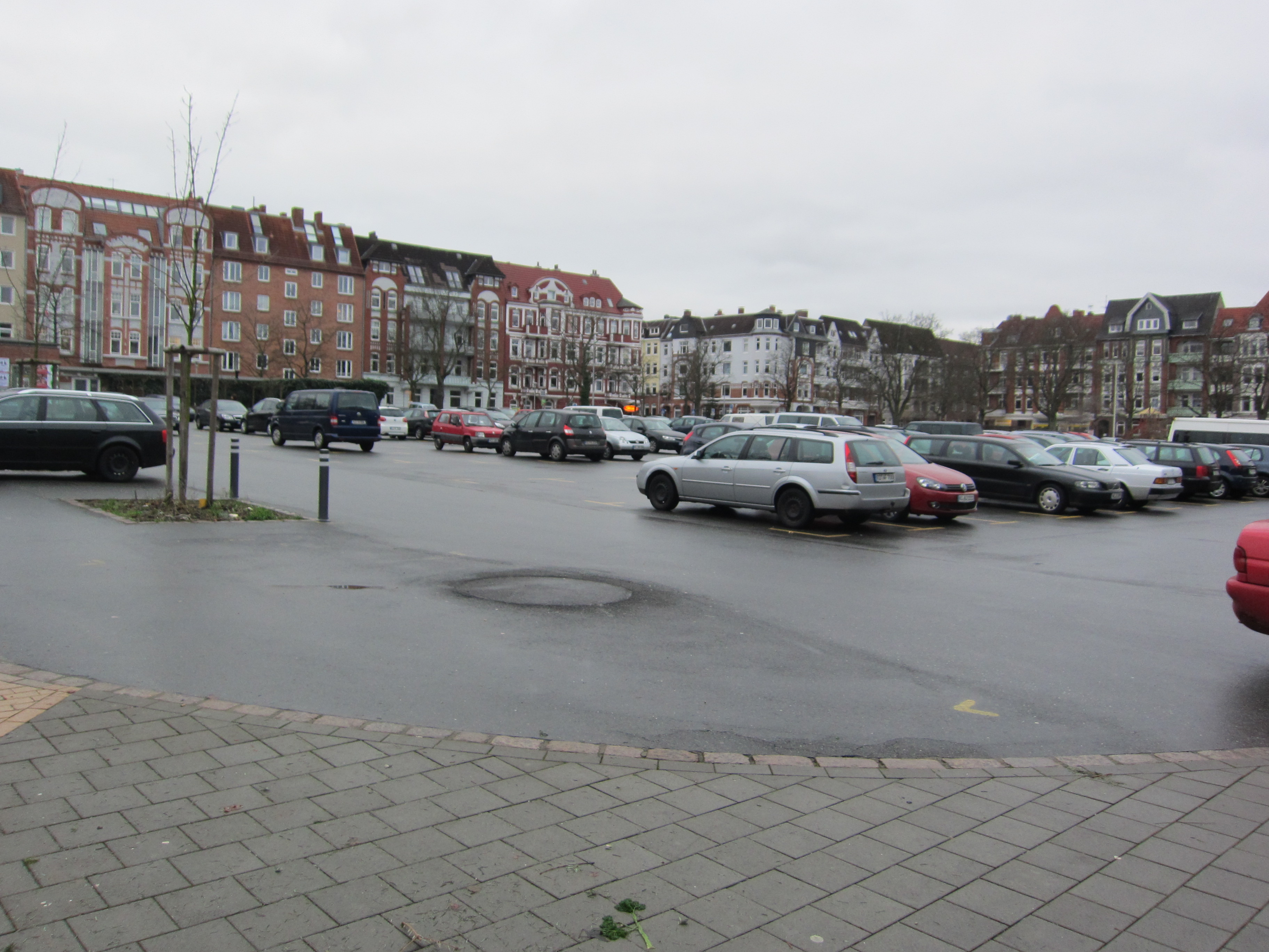 Square "Blücherplatz" in Kiel-Blücherplatz